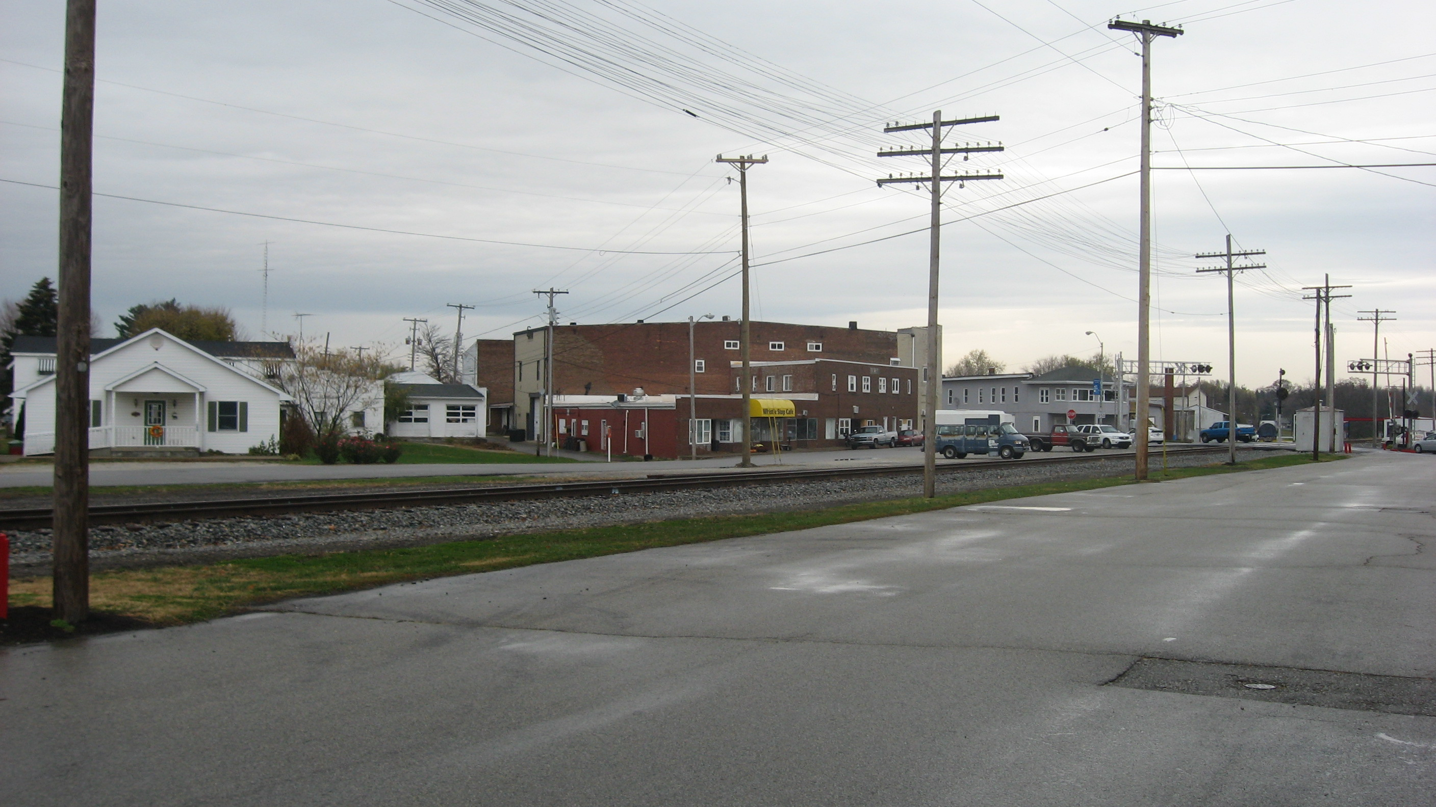 Overview of the former Ohio and Mississippi Railway line located along Railroad Avenue between Buckeye (the street in the distance) and Walnut Streets in Osgood, Indiana, United States. The railroad line is the subject of a state historical marker.